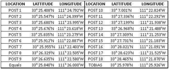 Table of 18 Peralta Stone Post GPS Coordinates and Tobias, the starting point of the trail.